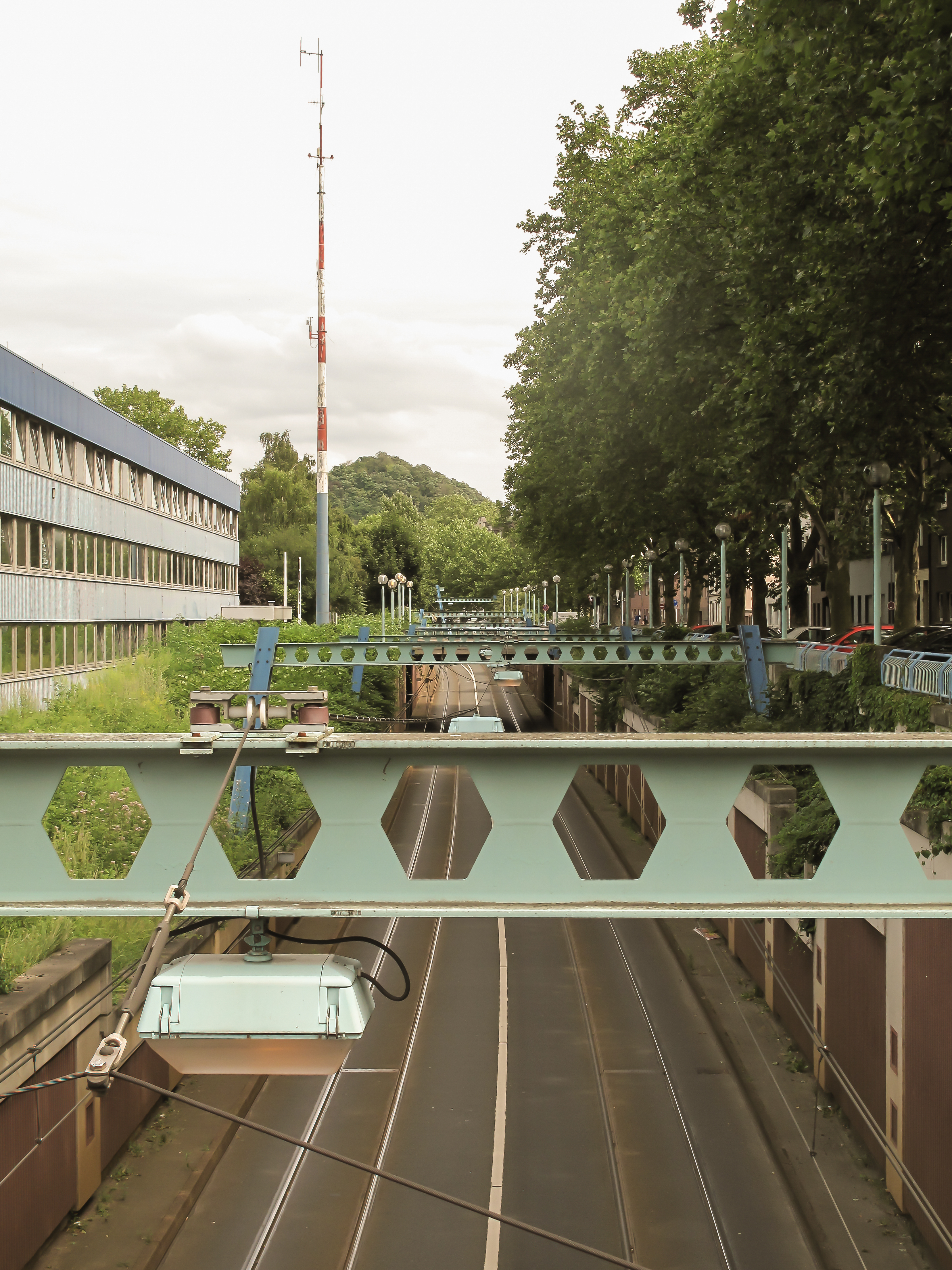 Oberhausen, near station Feuerwache